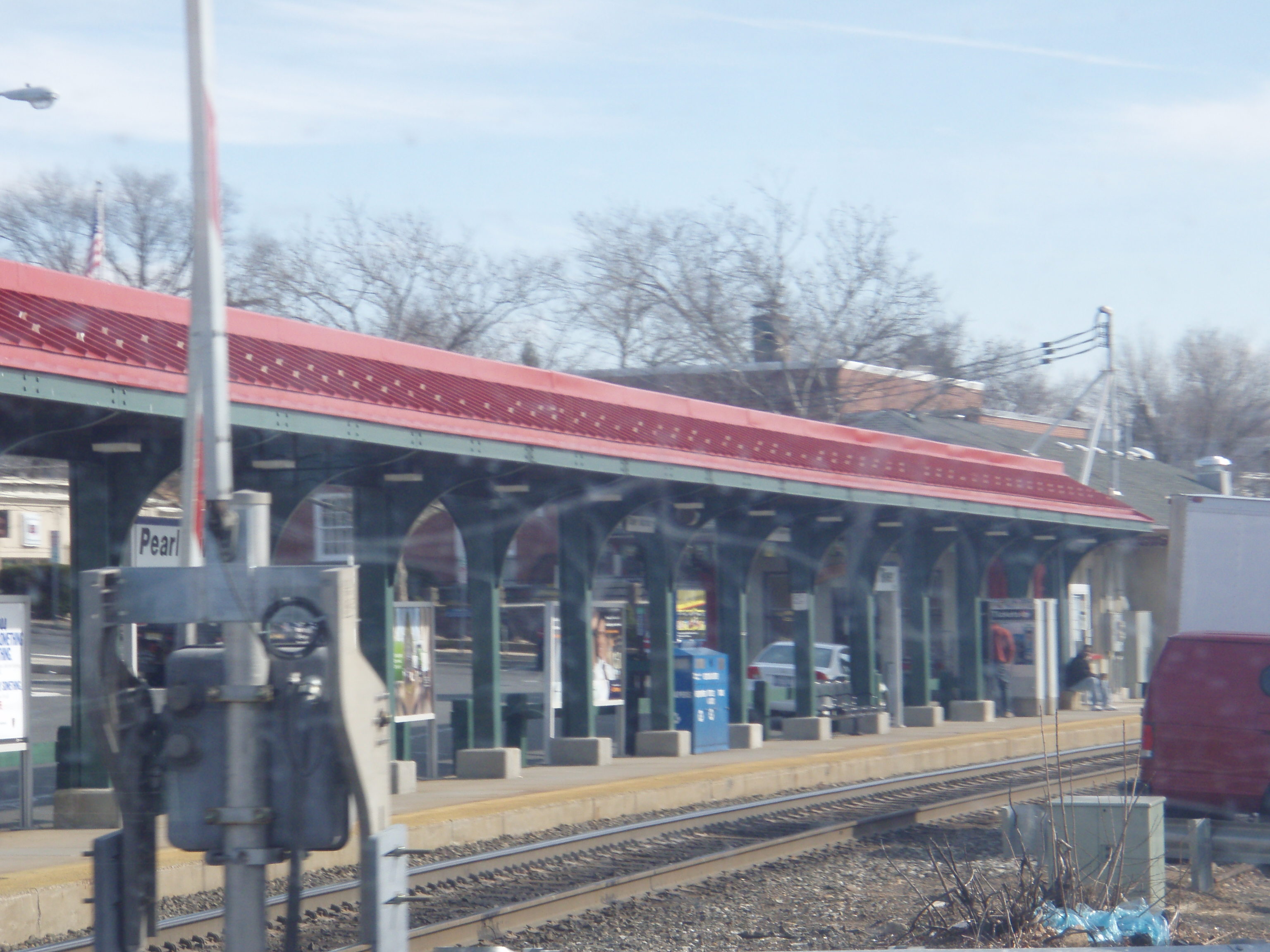 A train station in Pearl River, New York